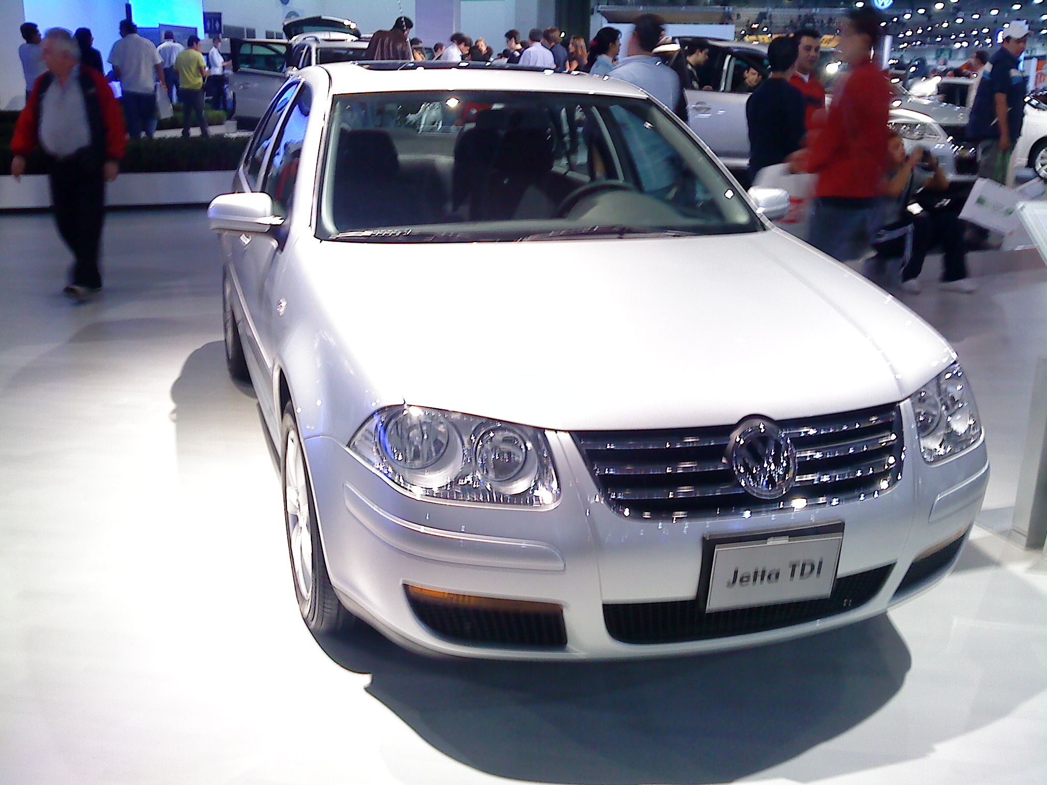 A mexican Volkswagen Jetta IV TDI at the 2008 SIAM.